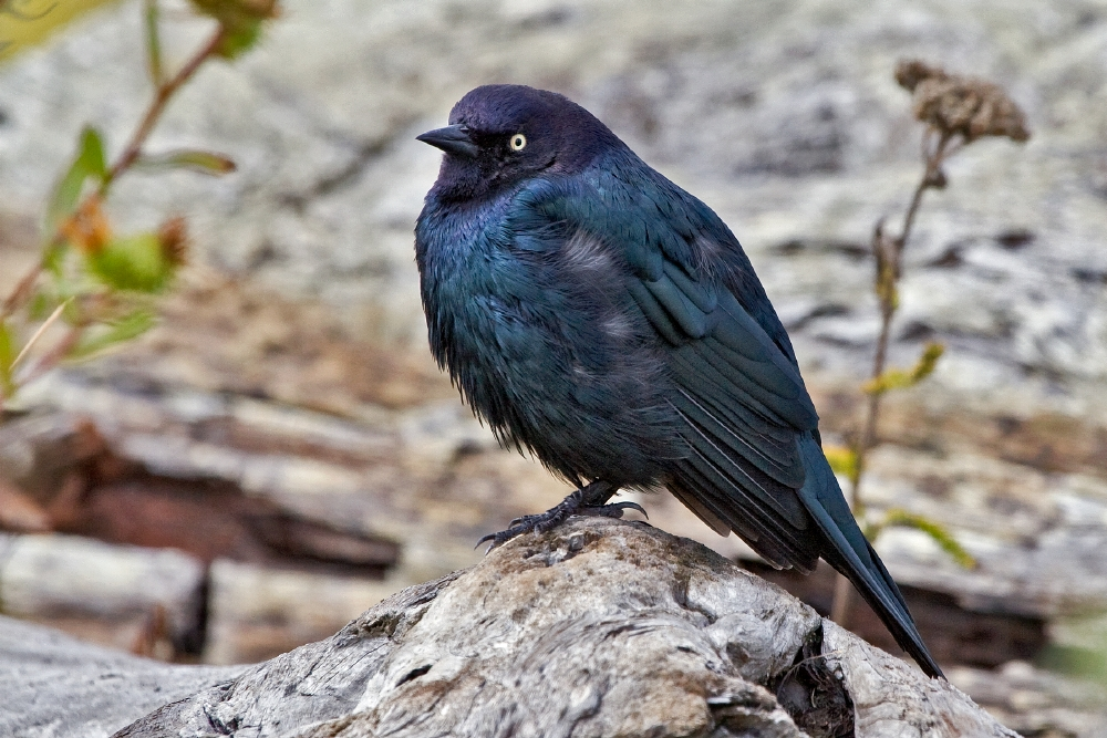 Brewer's Blackbird (Male), Esquimalt Lagoon, Colwood, Near Victoria, British Columbia